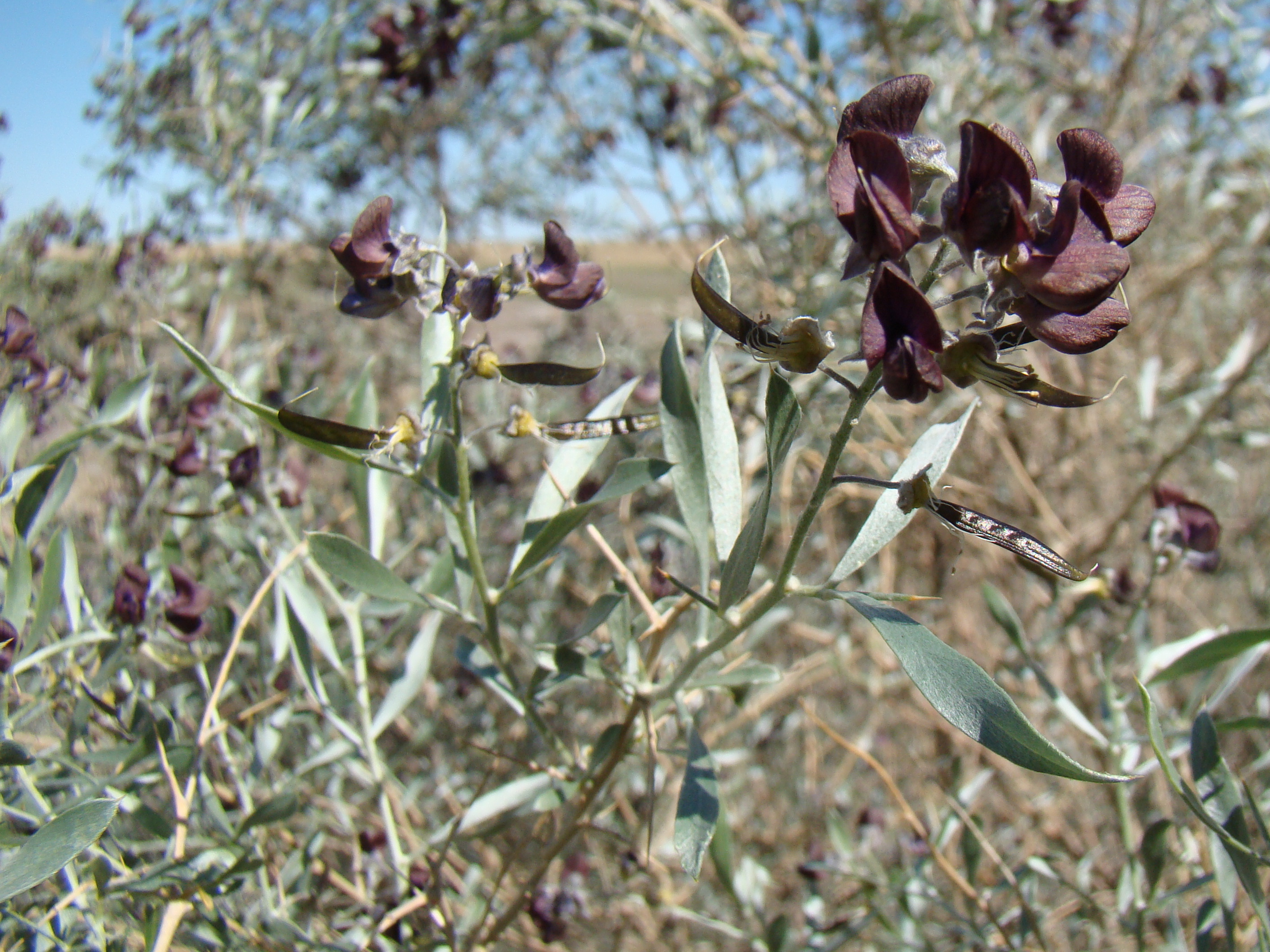 Ammodendron sp. Near Baikonur, Kazakhstan.